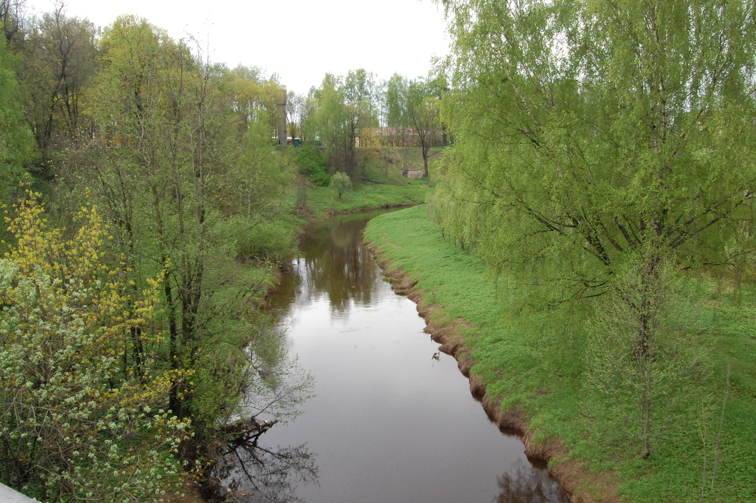 The Okhta river viewed from a bridge in Murino, Leningrad Region.